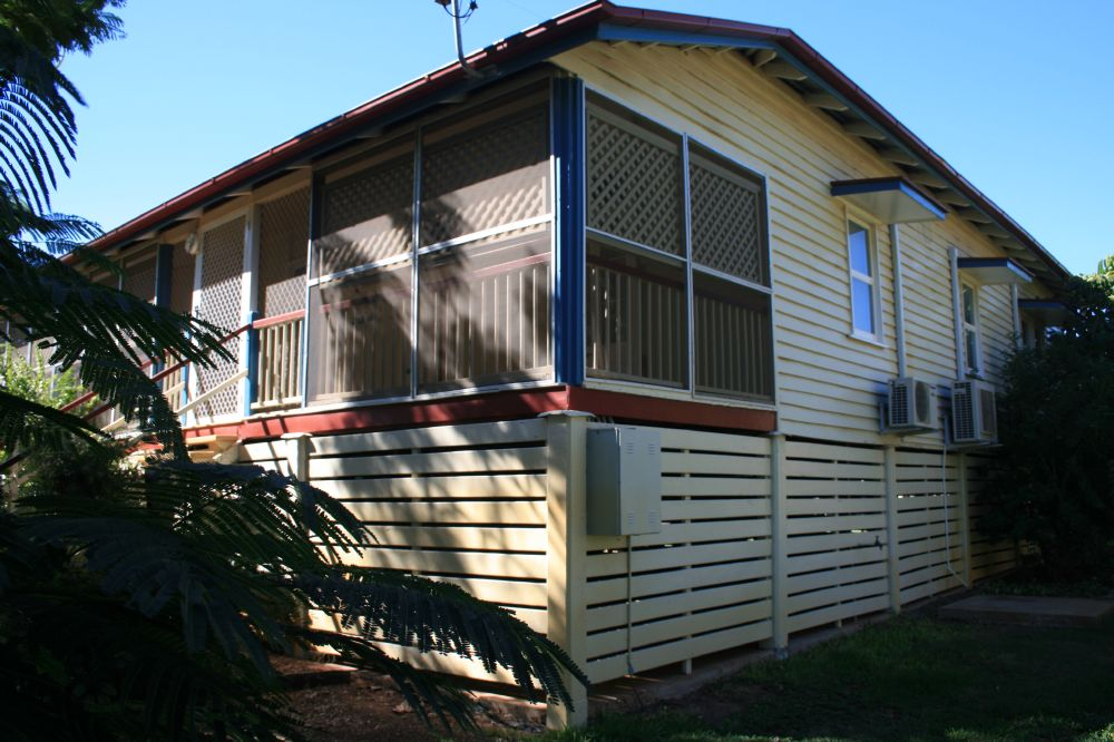 Aramac State School residence (2014)